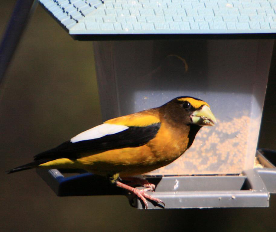 Hesperiphona vespertina male, western subspecies brooksi. Pine Mountain Lake, California.